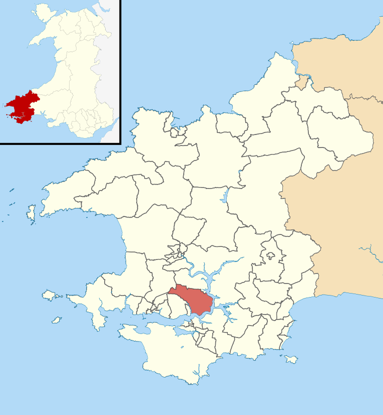 Location map of Llangunllo electoral ward in Pembrokeshire, Wales, which covers the communities of Burton and Rosemarket